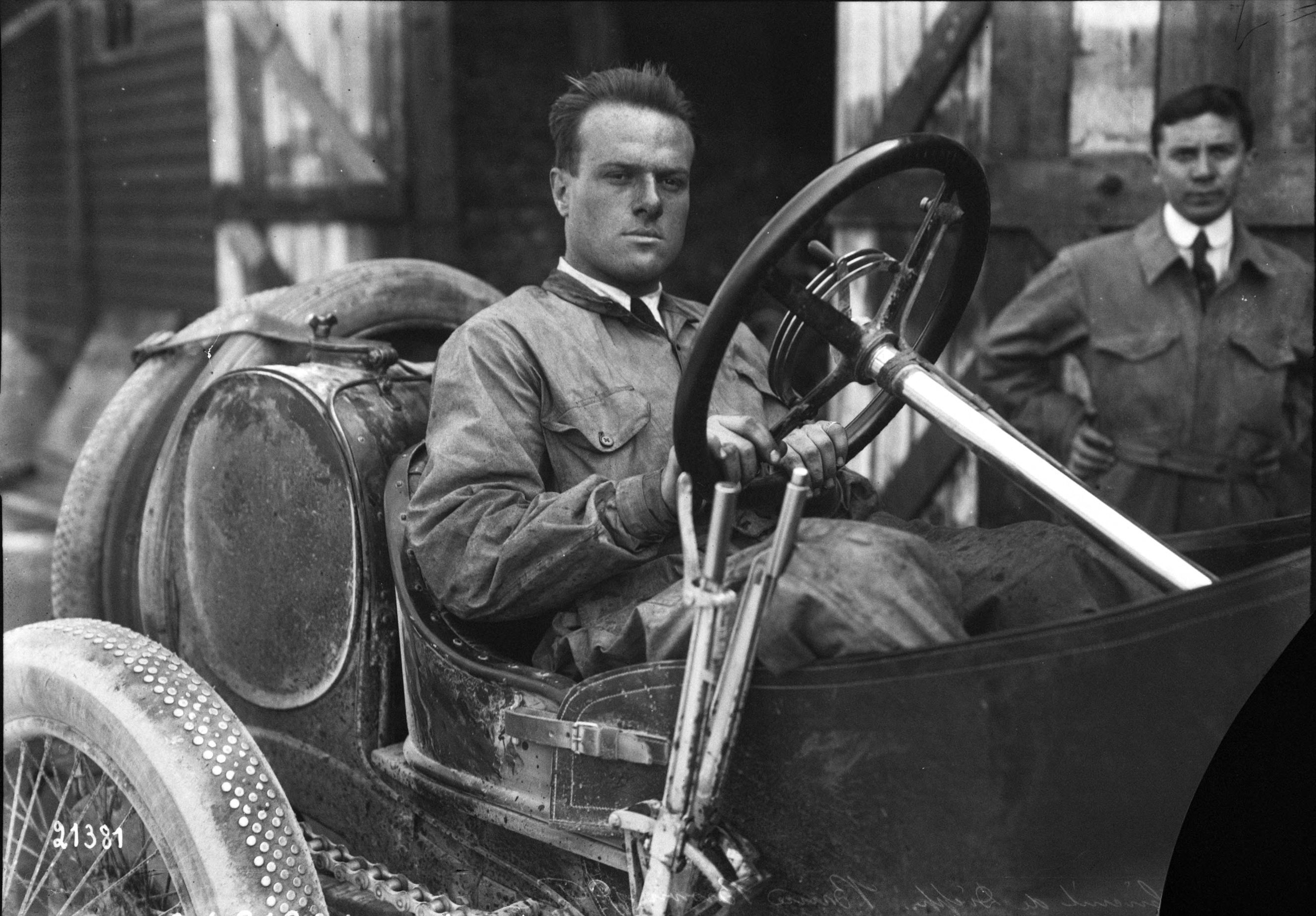 David Bruce-Brown in his Fiat at the 1912 French Grand Prix at Dieppe.